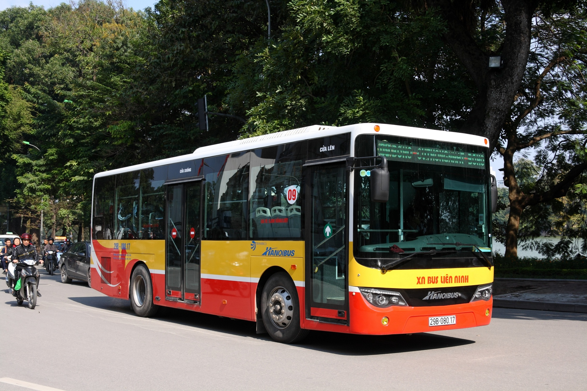 Hanoi bus - Thaco